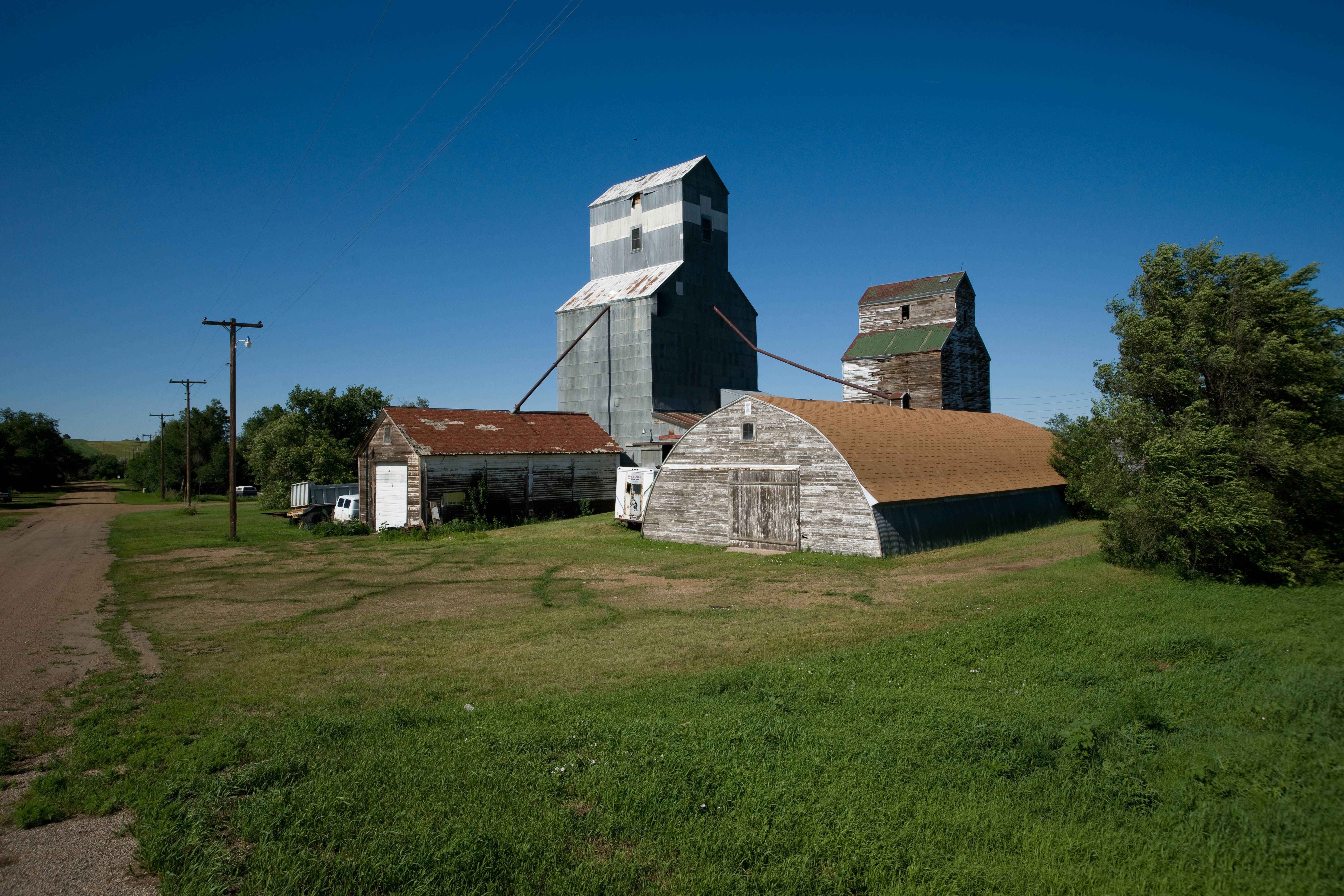 The grain elevator in Solen